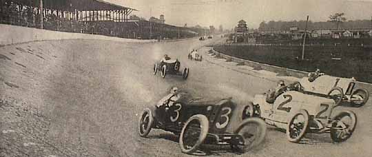 Published in The New York Times, June 13, 1915 The front row at the start of the 1915 Indianapolis 500. No. 1 was Howard Wilcox in a Stutz, No. 2 was the winner, Ralph DePalma in a Mercedes, and No. 3 was Dario Resta, who finished second in his Peugeot. This "photo" has been heavily enhanced by an artist. The car numbers are exaggerated, the Peugeot is out of proportion for its position on the track, the dust clouds are probably fake.